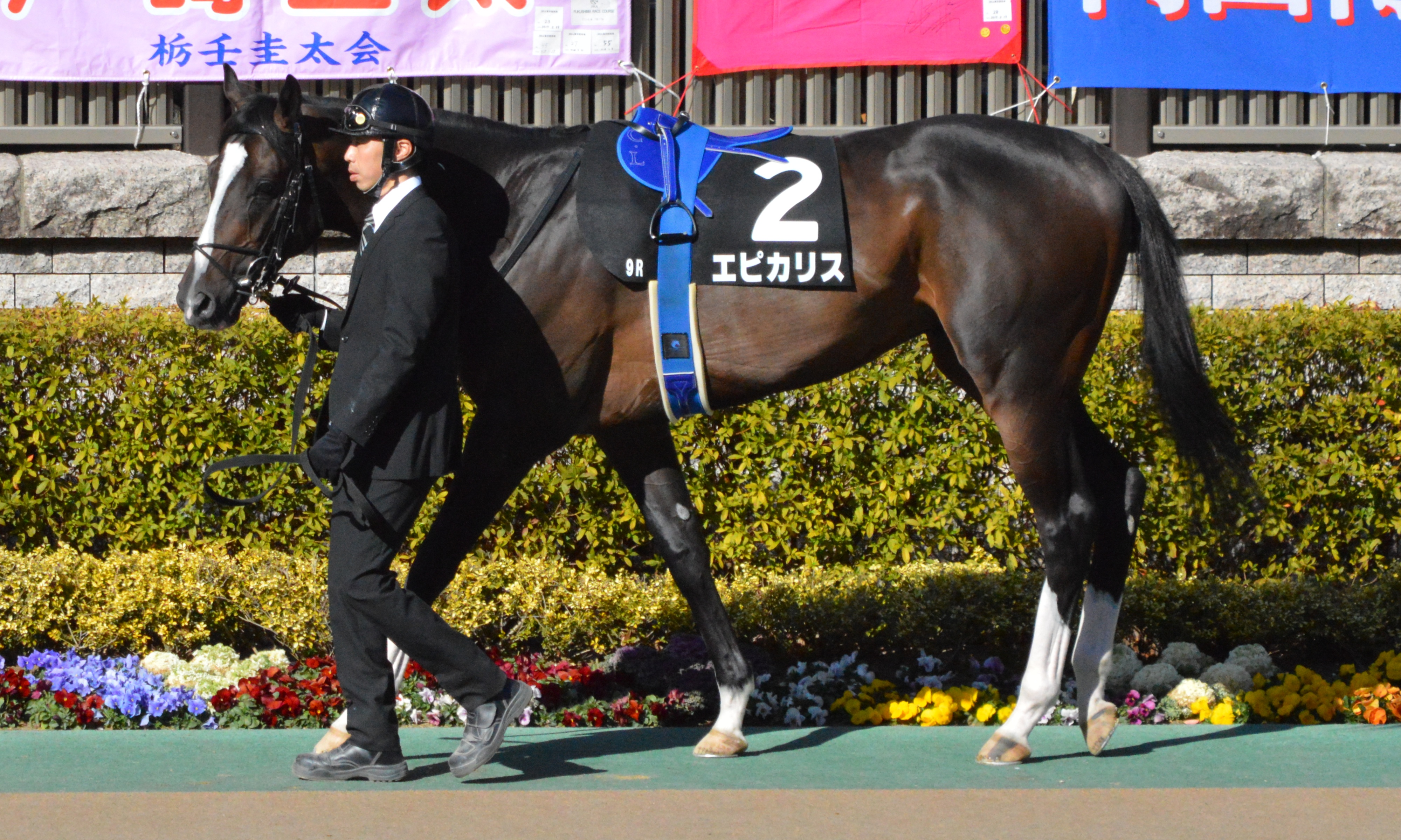 Japanese race horse Lani at Tokyo racecourse. Tokyo (JPN) 19 Feb 2017 Hyacinth Stakes (Listed Race) (3yo) (Dirt) 1m Good RankHorse NameOddsAgeWgtTrainerJockey1stEpicharis (JPN)2/5FC39-0Kiyoshi HagiwaraChristophe-Patrice Lemaire2ndAdirato (JPN)9/2C38-11Naosuke SugaiYutaka Take3rd - 15th/omission